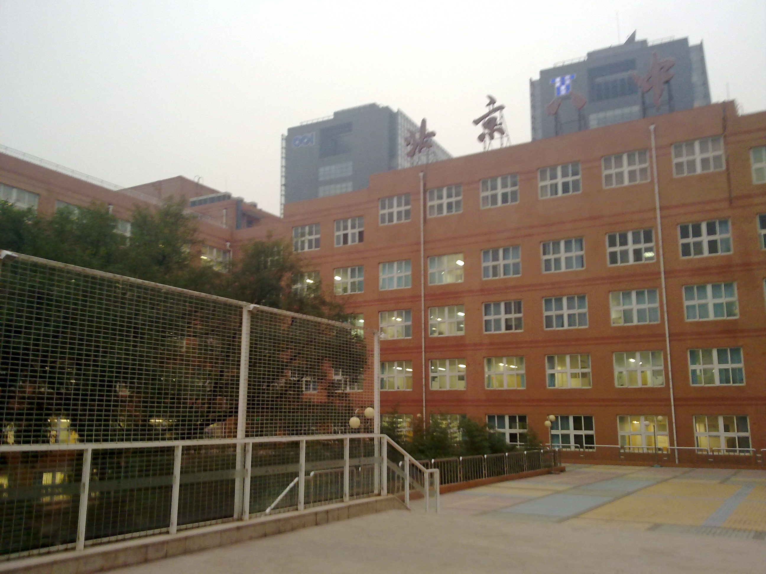 Main Building of Beijing No. 8 High School